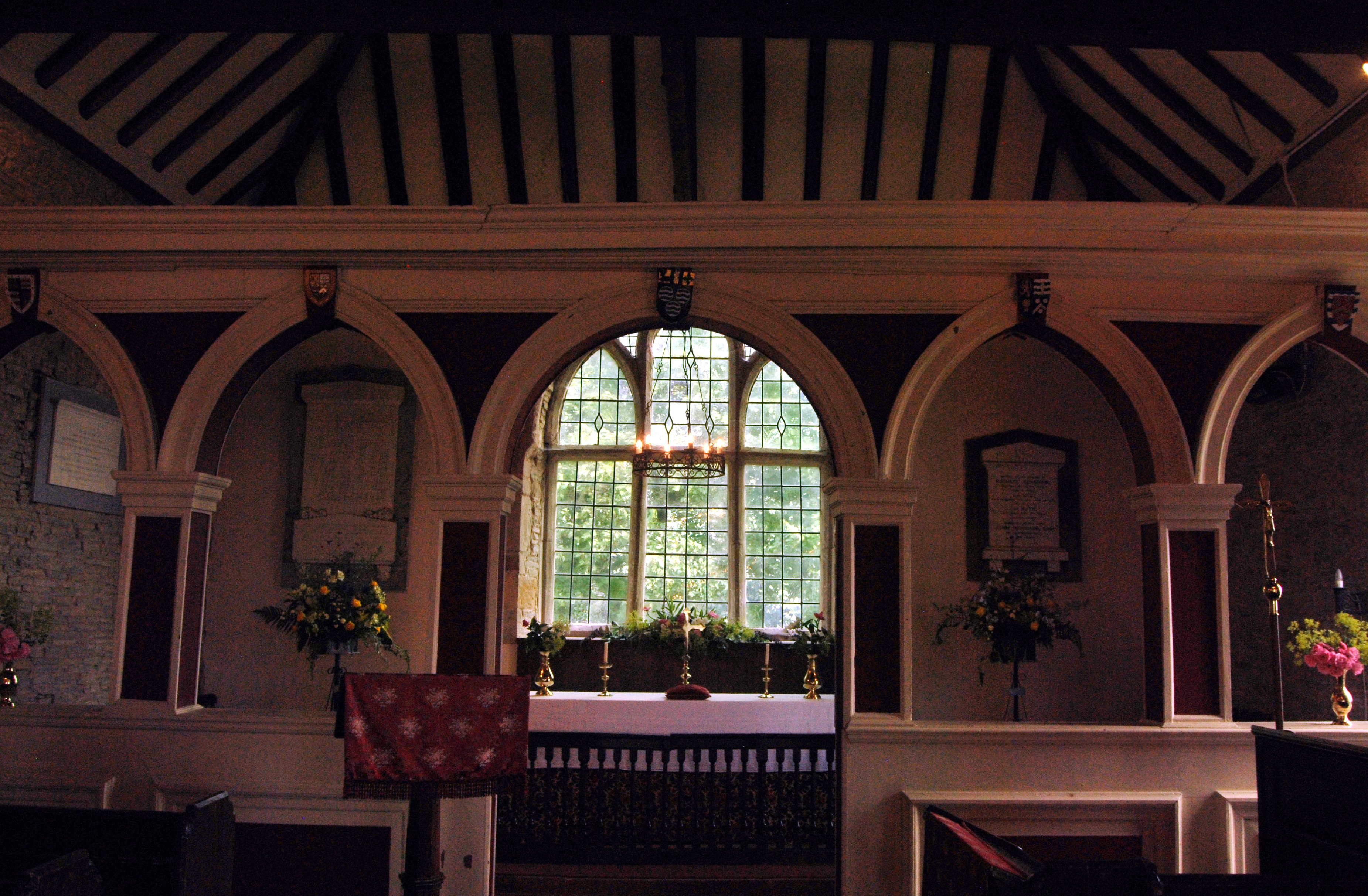 The interior at Owthorpe church, St Margaret's. The screen was installed after removal from the Manor House.